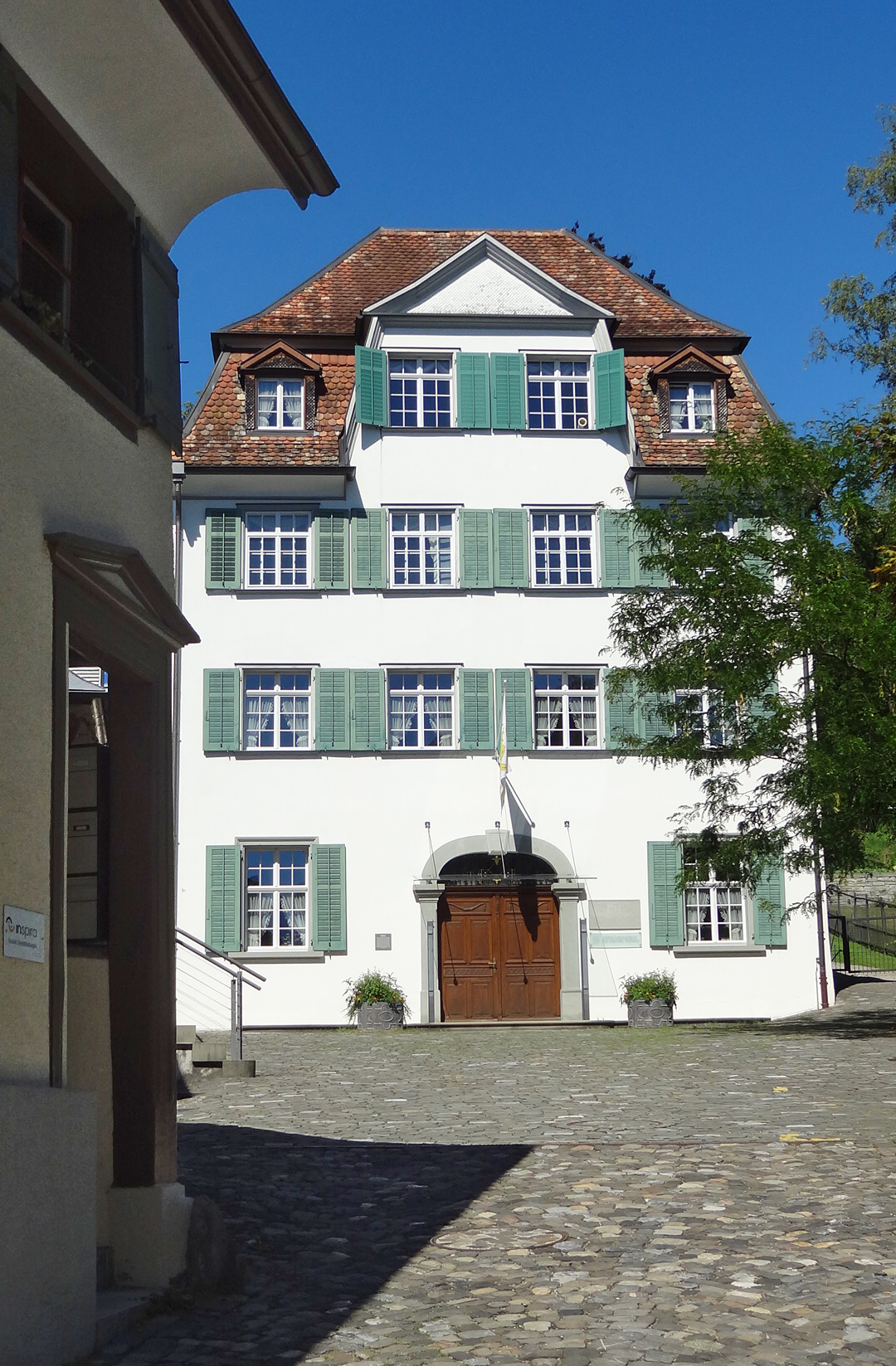 "Wohnhaus zum Komitee", administrative court of the canton of Thurgau in Weinfelden